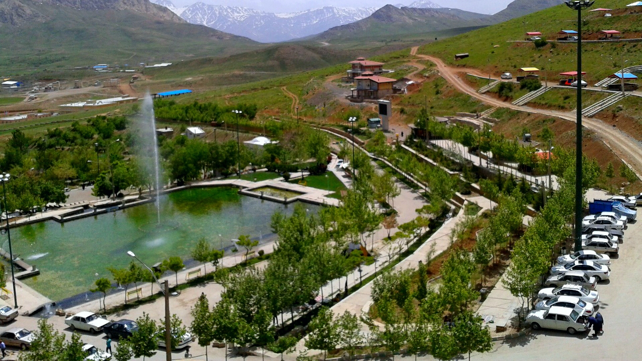 Moalem Park of Fereydunshahr